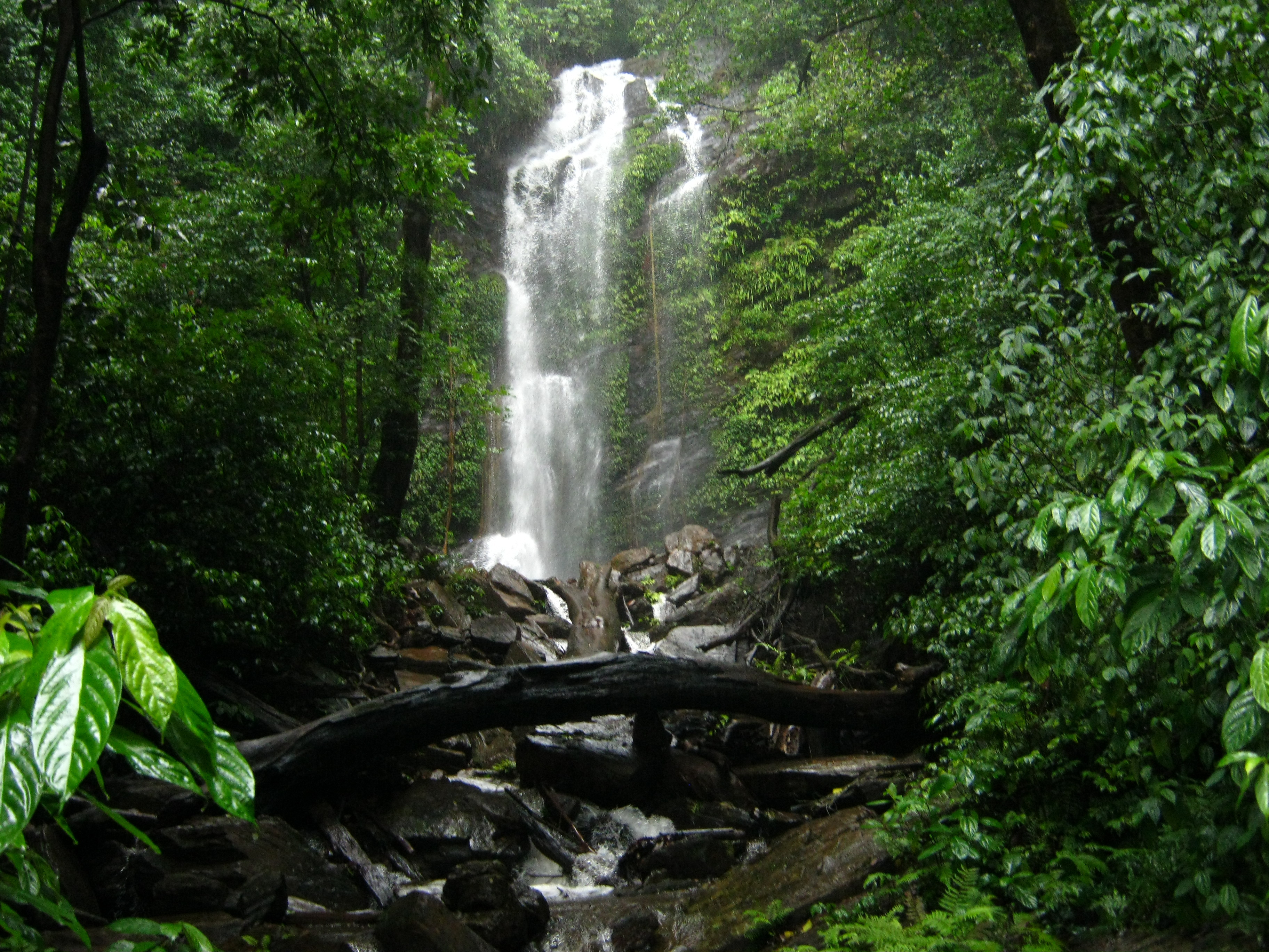 The Hidlumane falls is situated in a small valley at the North-eastern side of Kodachadri.